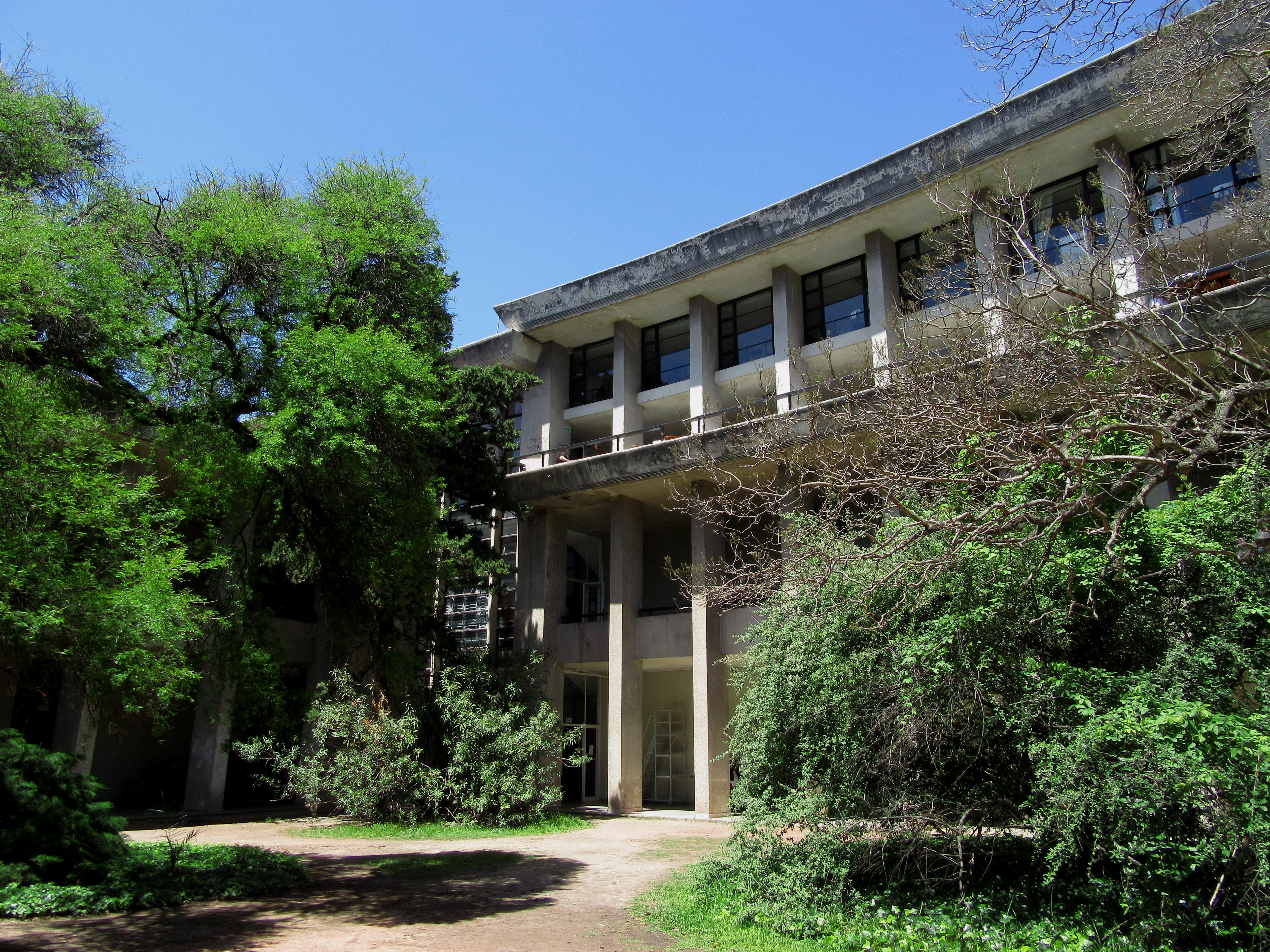 Montevideo